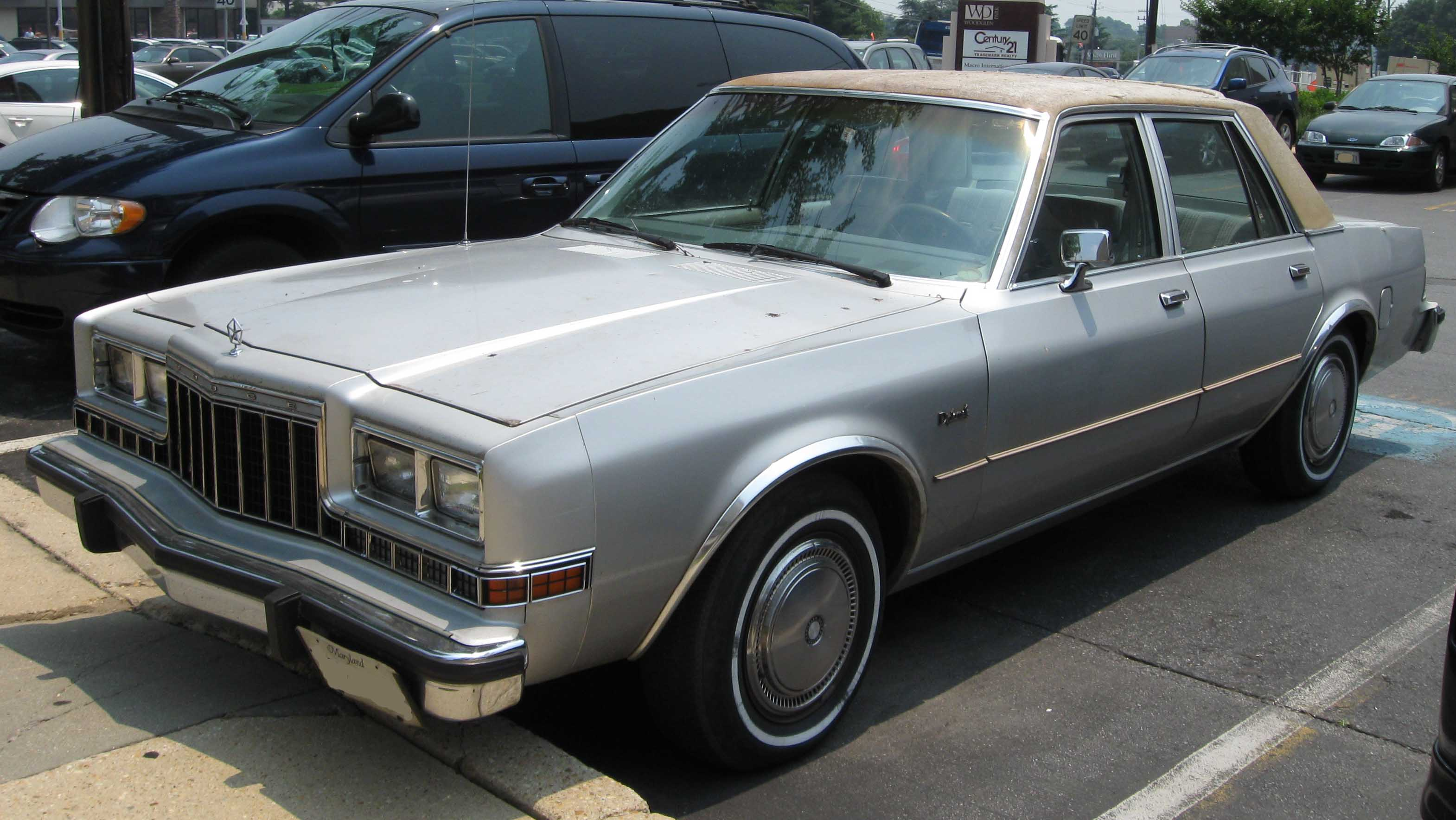 1980-1983 Dodge Diplomat photographed in Rockville, Maryland, USA.